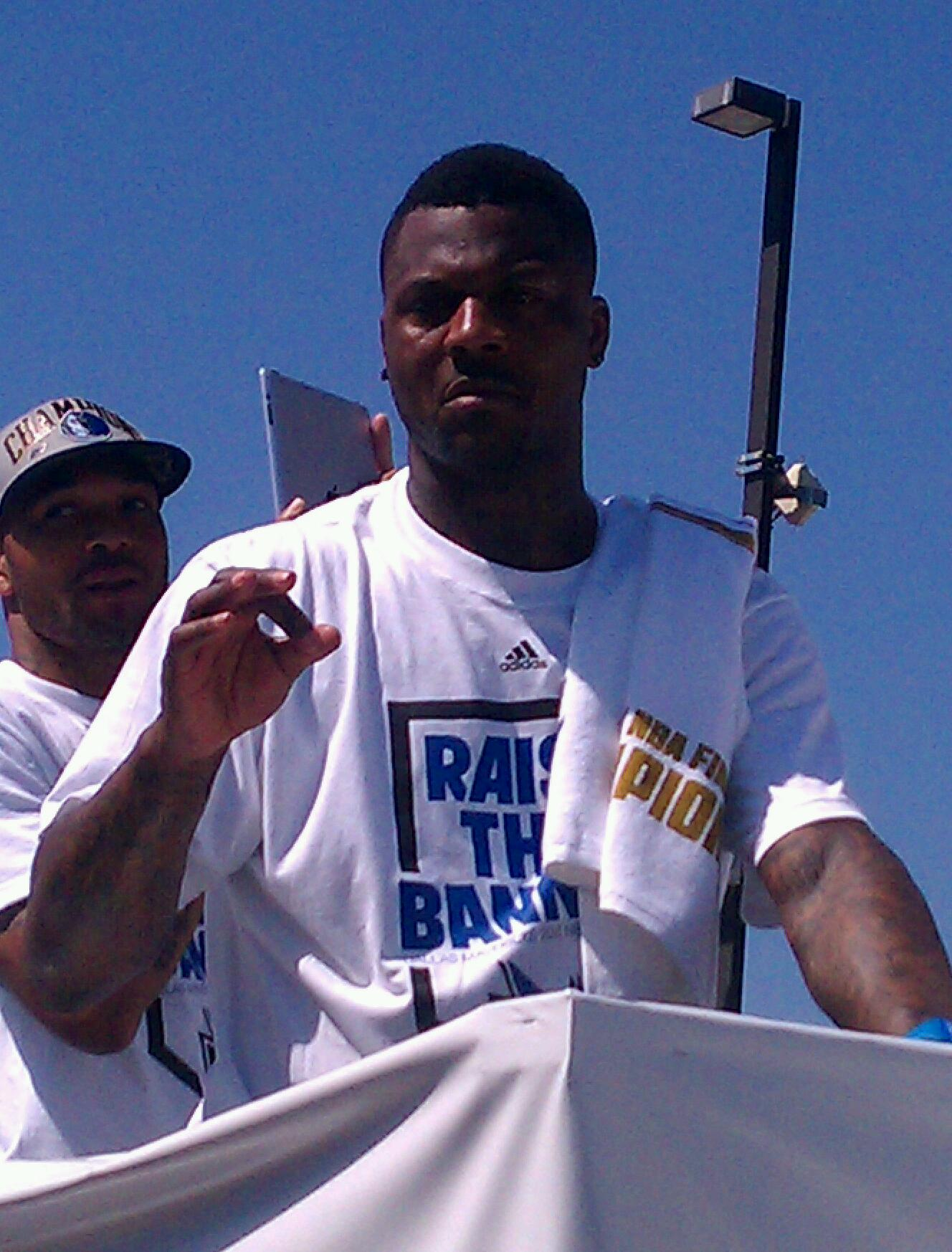 DeShawn Stevenson at the champs parade